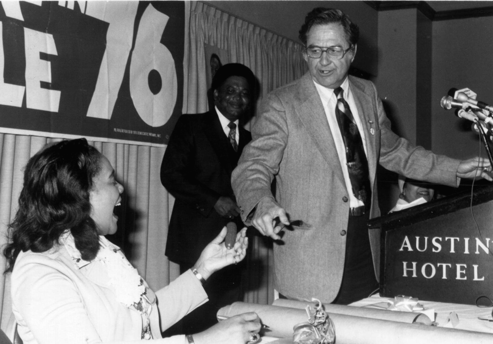 Jake Pickle gives Coretta Scott King a plastic "squeaky pickle" at a campaign rally in Austin, Texas, United States.